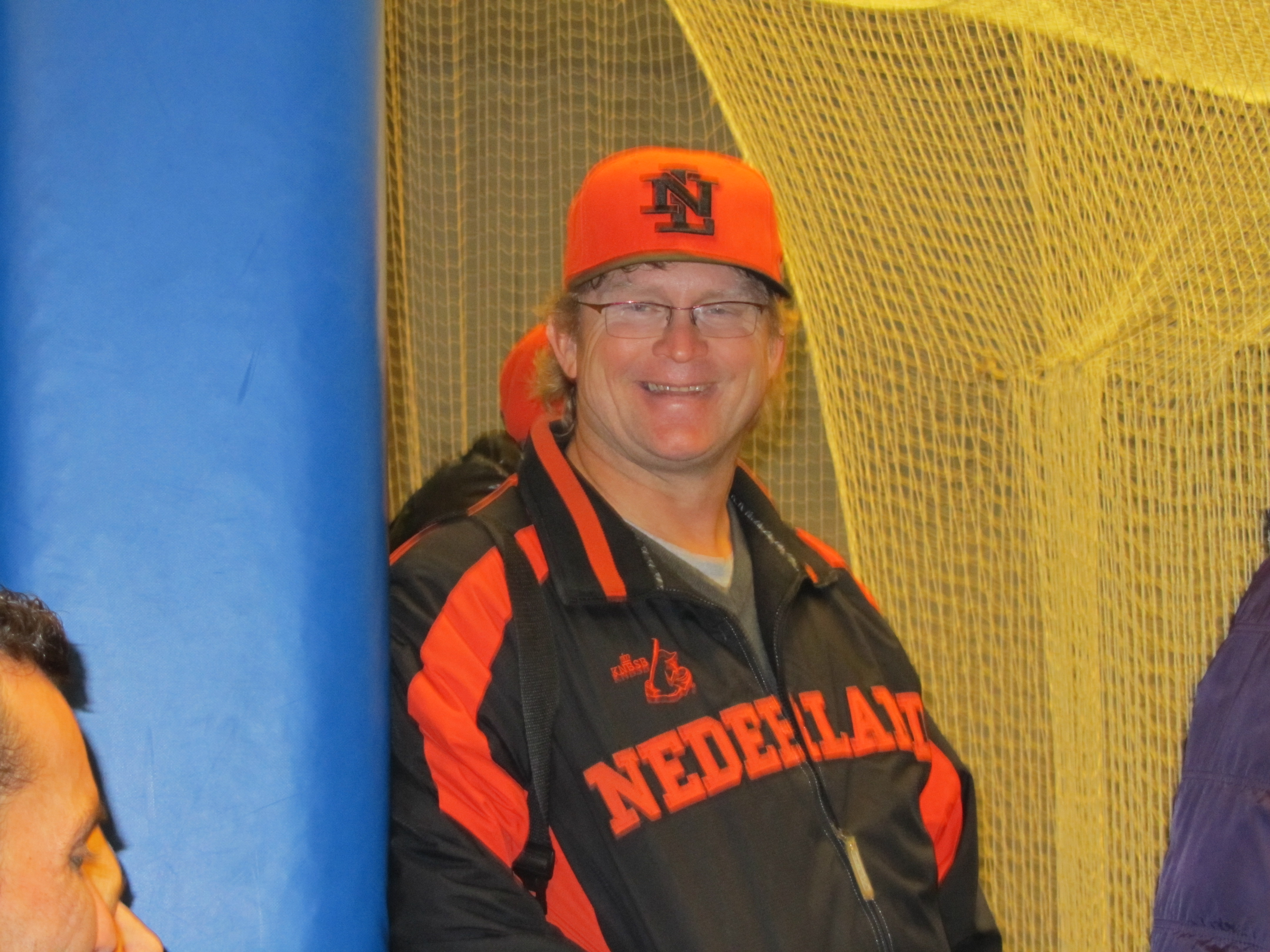 Baseballer Eric de Vries